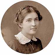 Portrait of C M Braker